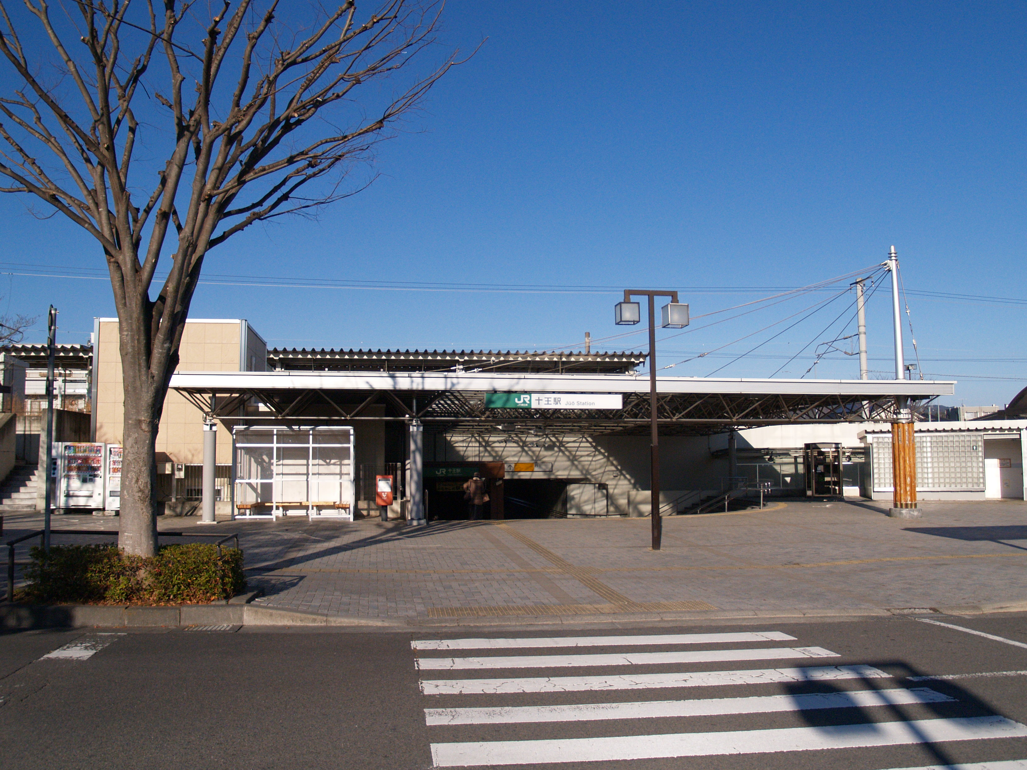 East Entrance of Jūō Station